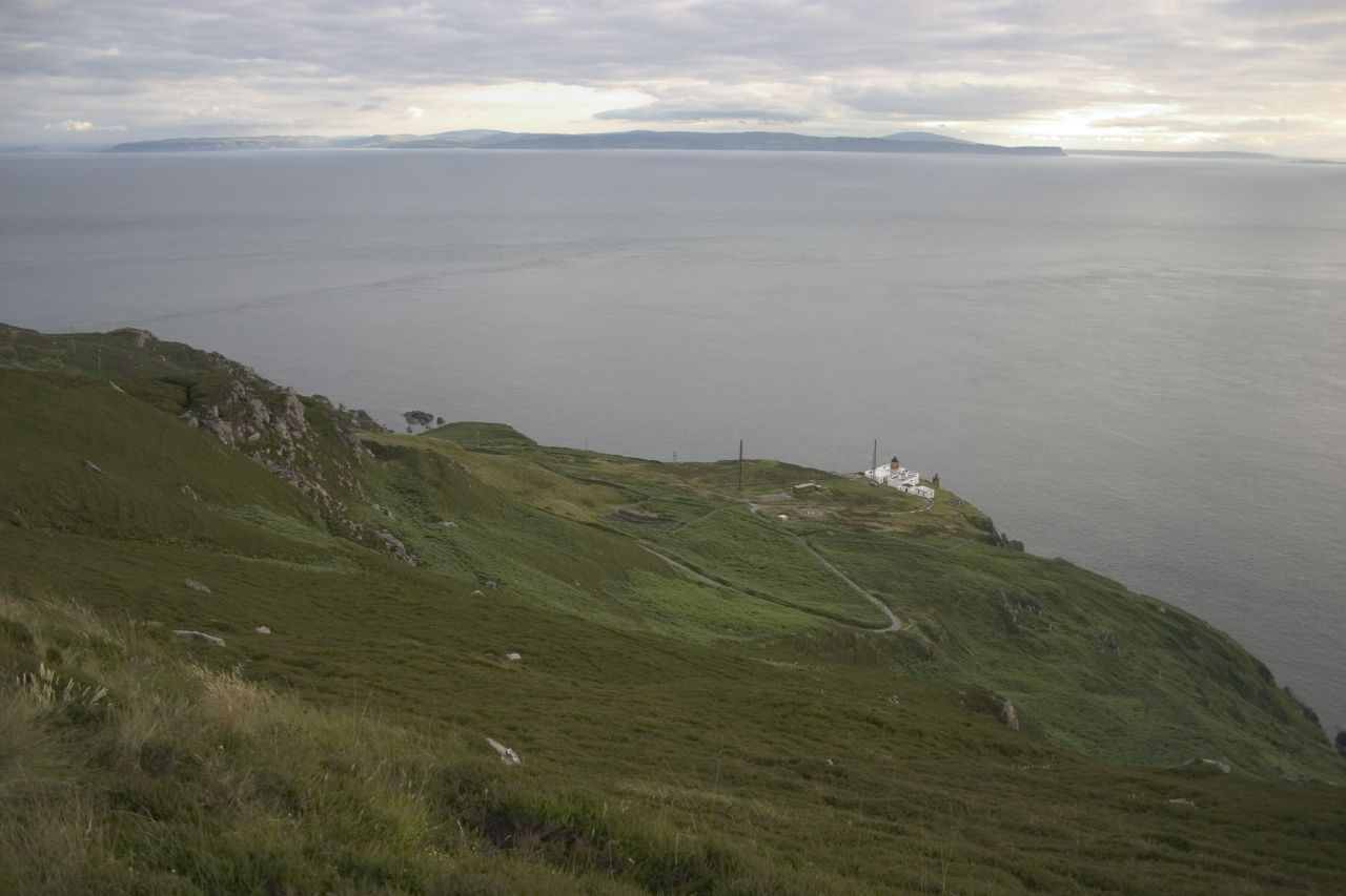 Mull of Kintyre Lighthouse